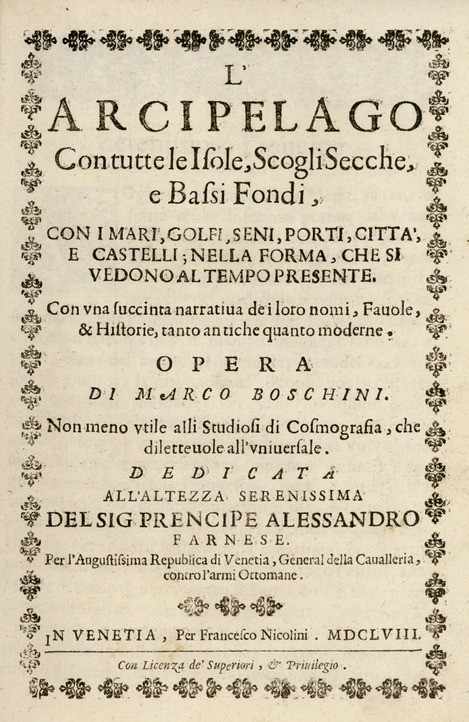 Arcipelago by Marco Boschini, was published in Venice at 1658, and contains historical descriptions and maps for 48 islands of the Aegean sea